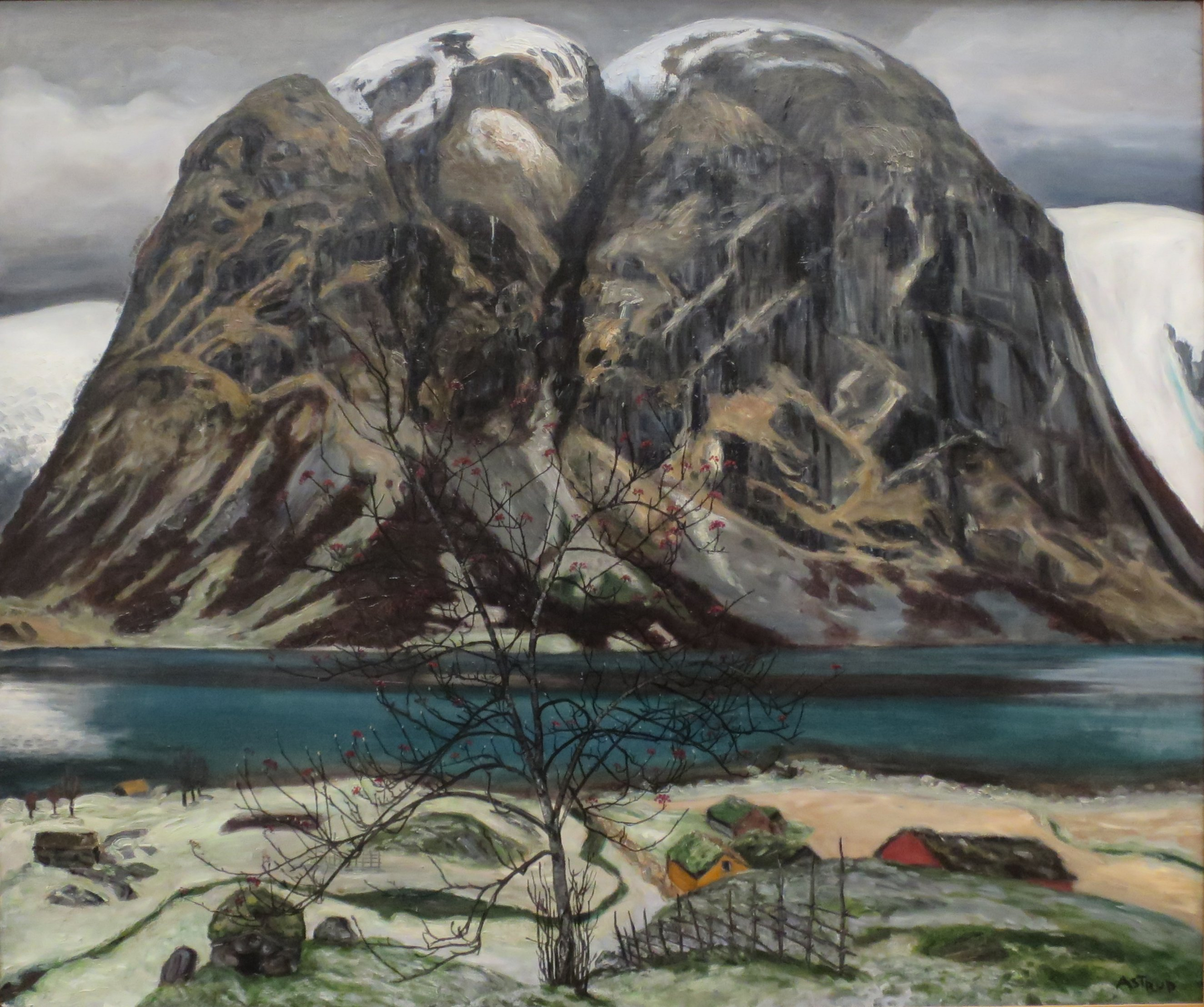 Kollen (The Fell) by Nikolai Astrup, 1906, oil on canvas, Bergen Kunstmuseum